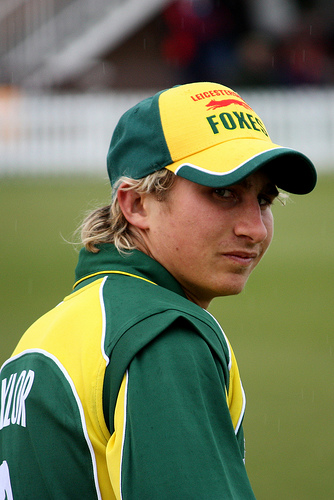 Cricketer James Taylor in the field at Grace Road for Leicestershire in the match against Ireland.